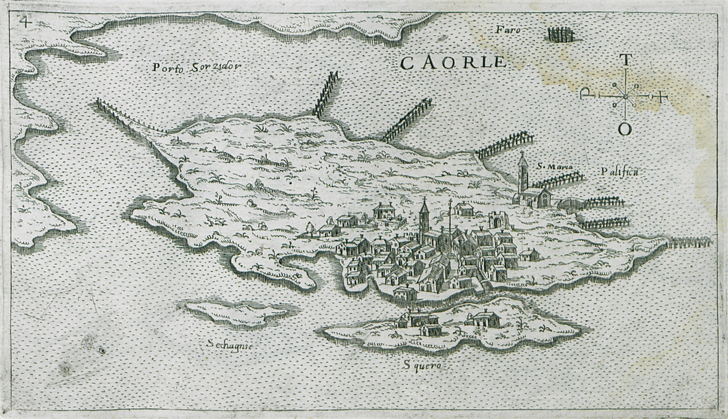 Giuseppe Rosaccio. Viaggio da Venetia, a Costantinopoli : per mare, e per terra & insieme quello di Terra Santa, Venice, Giacomo Franco, 1598